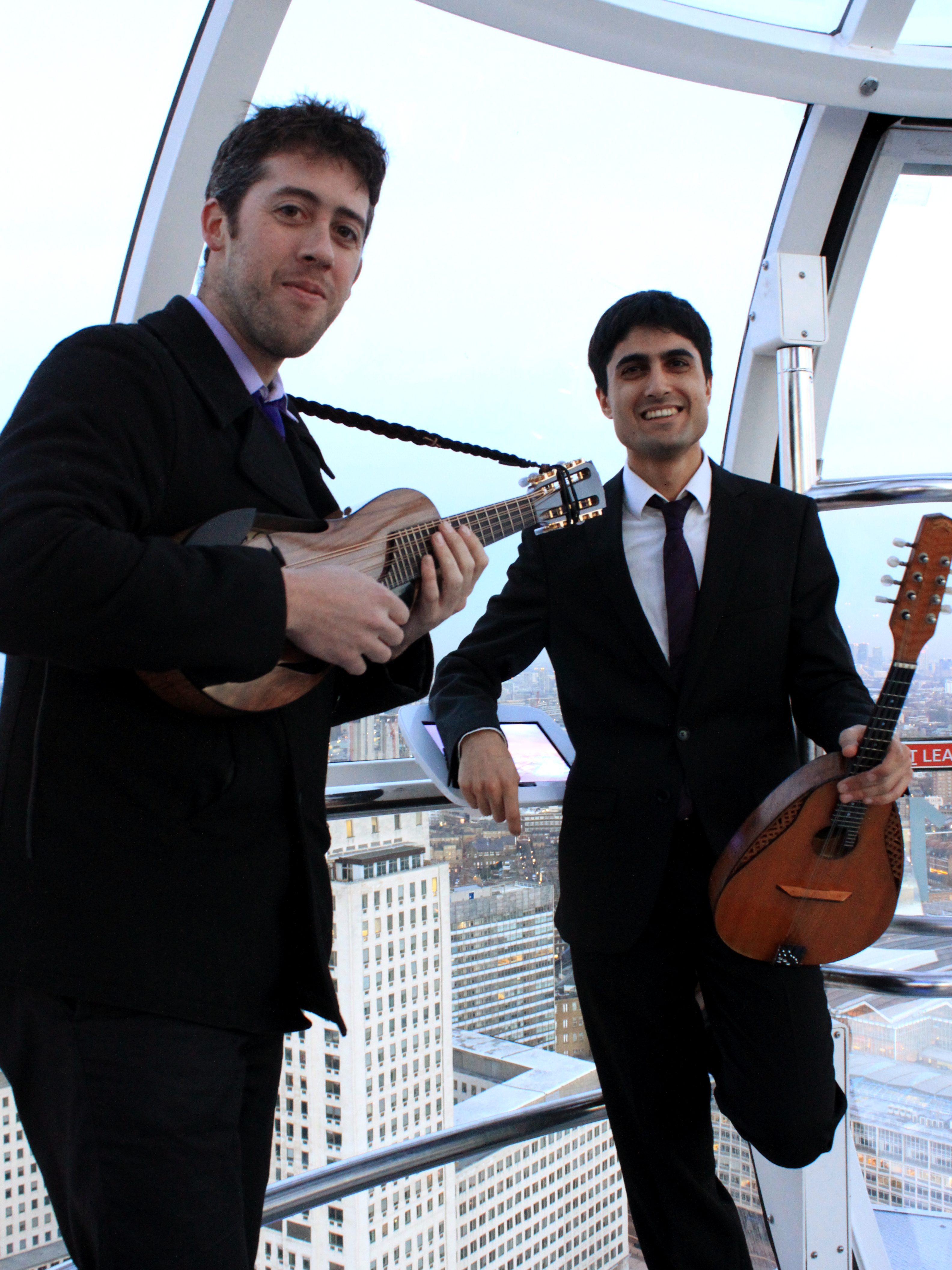 Mandolinists Joseph Brent (left) and Alon Sariel with their mandolins.